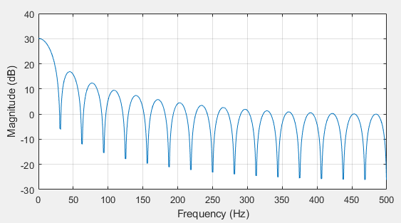 Group averaging filter transmission function, 32 samples